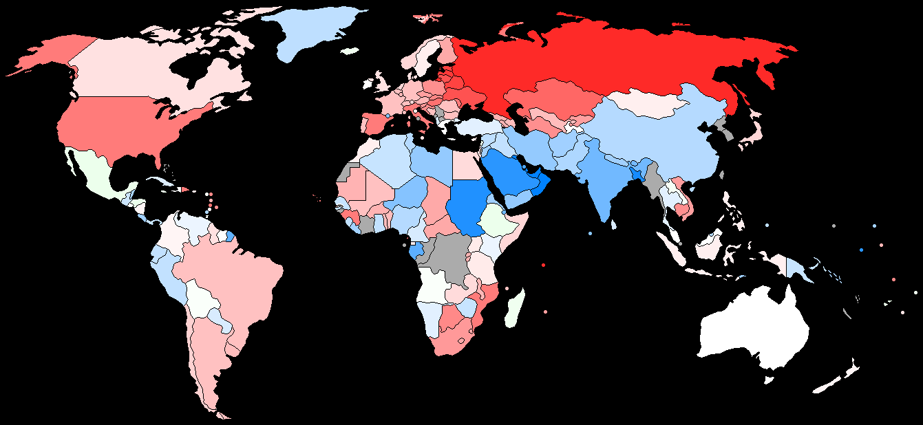 Red, Women / Blue, Men. Sex ratio of the world population over the age of 65, by country.